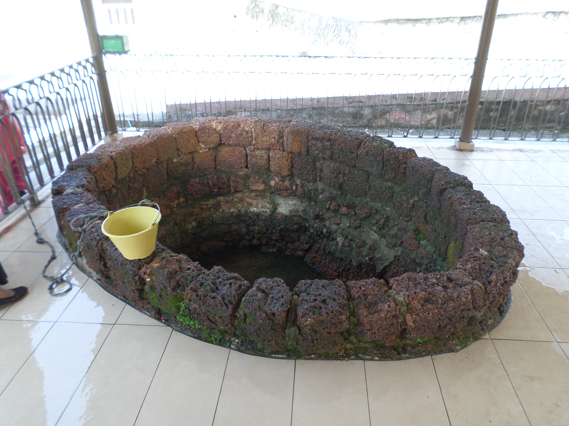 Hang Tuah's Well, Kampung Duyong, Central Melaka, Melaka, MalaysiaBahasa Melayu: Perigi Hang Tuah, Kampung Duyong, Melaka Tengah, Melaka, Malaysia